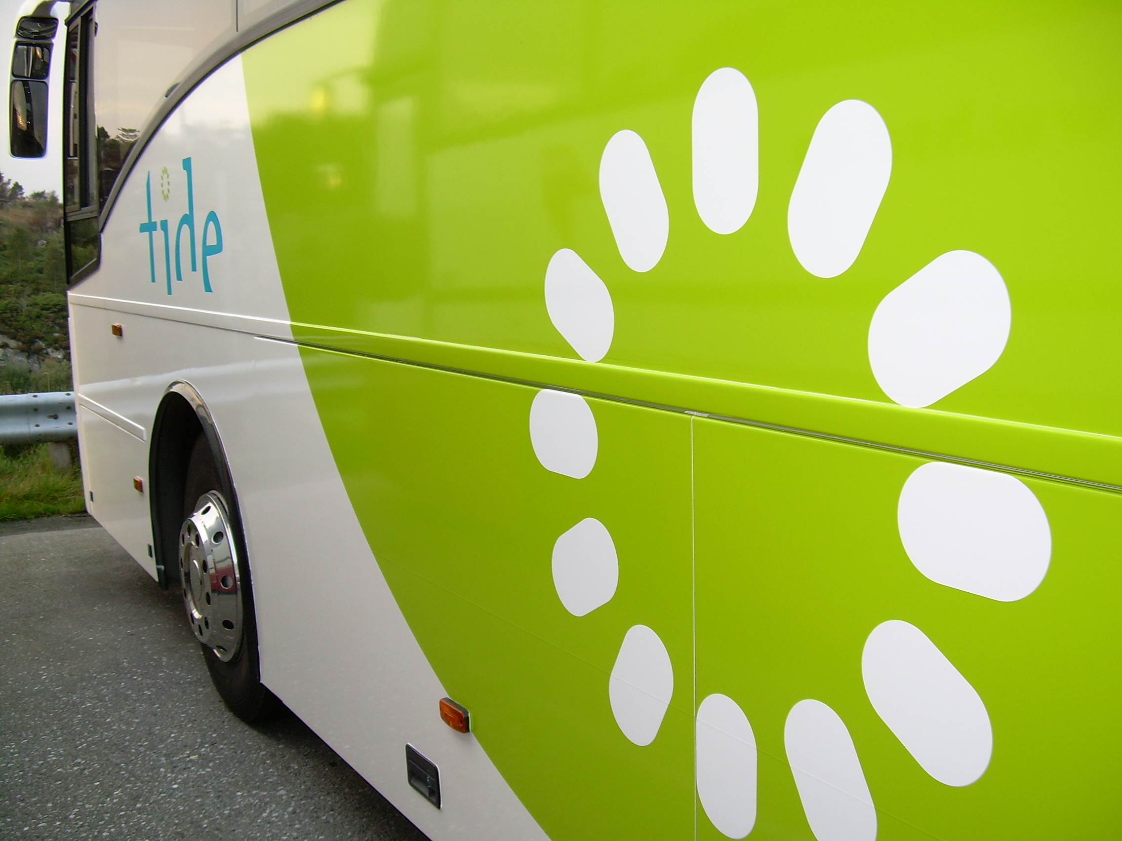 Tide profiled bus.